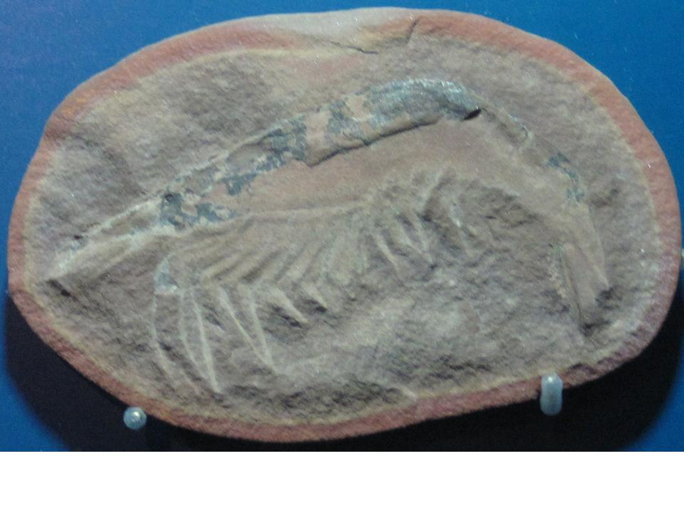 Belotelson magister Packard, 1886 - laterally compressed fossil shrimp in concretion from the Mazon Creek Lagerstätte (Middle Pennsylvanian) of Illinois, USA (FMNH PE 45648, Field Museum of Natural History, Chicago, Illinois, USA). Classification: Animalia, Arthropoda, Crustacea, Eumalacostraca, Belotelsonidea, Belotelsonidae